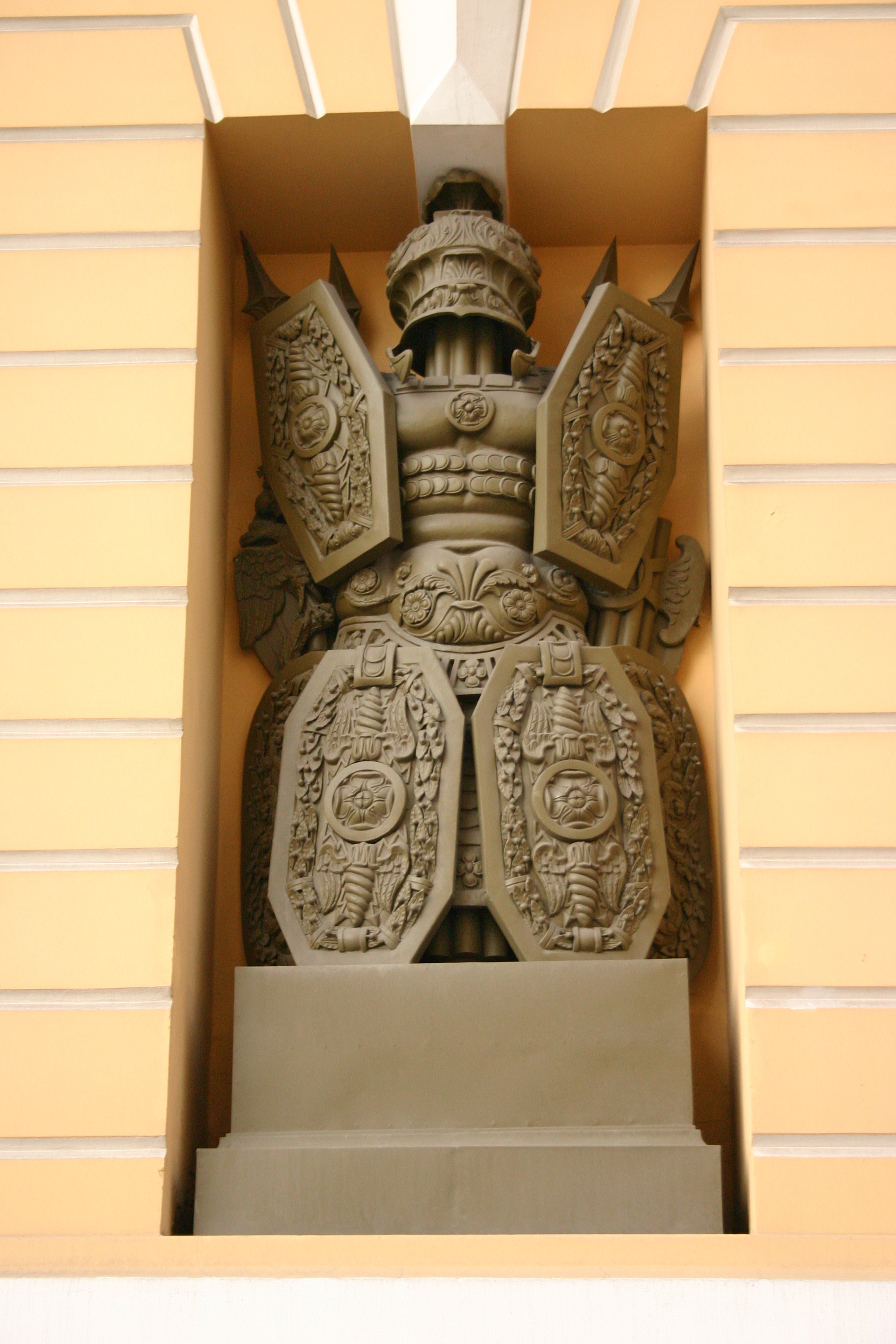 Element of the Main headquarters building in Saint Petersburg